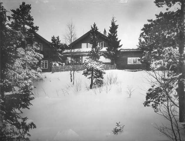 The villa "Solstuen" in Oslo. "Solstuen" bought by professor Ewald Bosse in 1933. Bosse's widow gifted the villa to Oslo municipality in 1956.